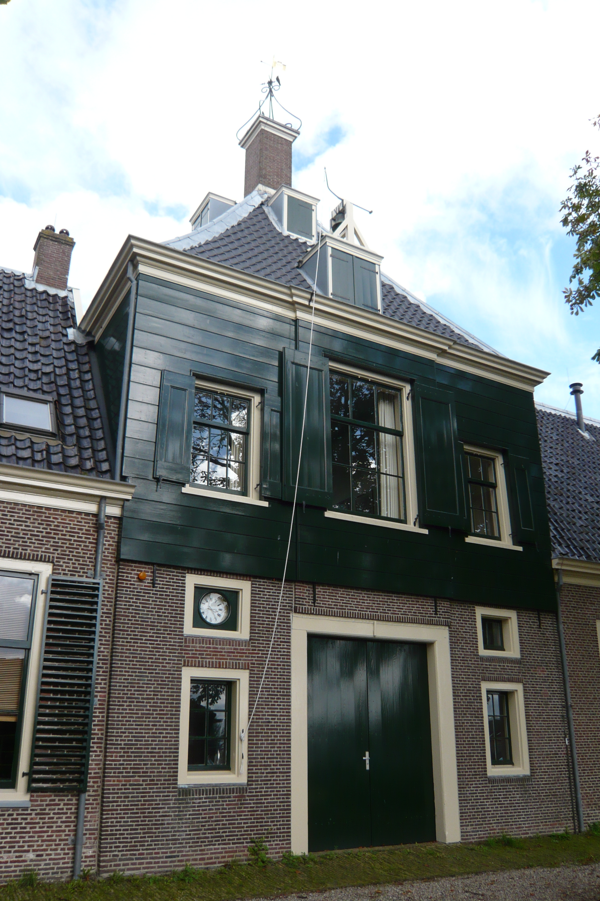 Rijnlandshuis, 1641, Hoogheemraadschap Rijnland, Spaarndam. The bell on top was used to warn the dike warden of a possible flood.